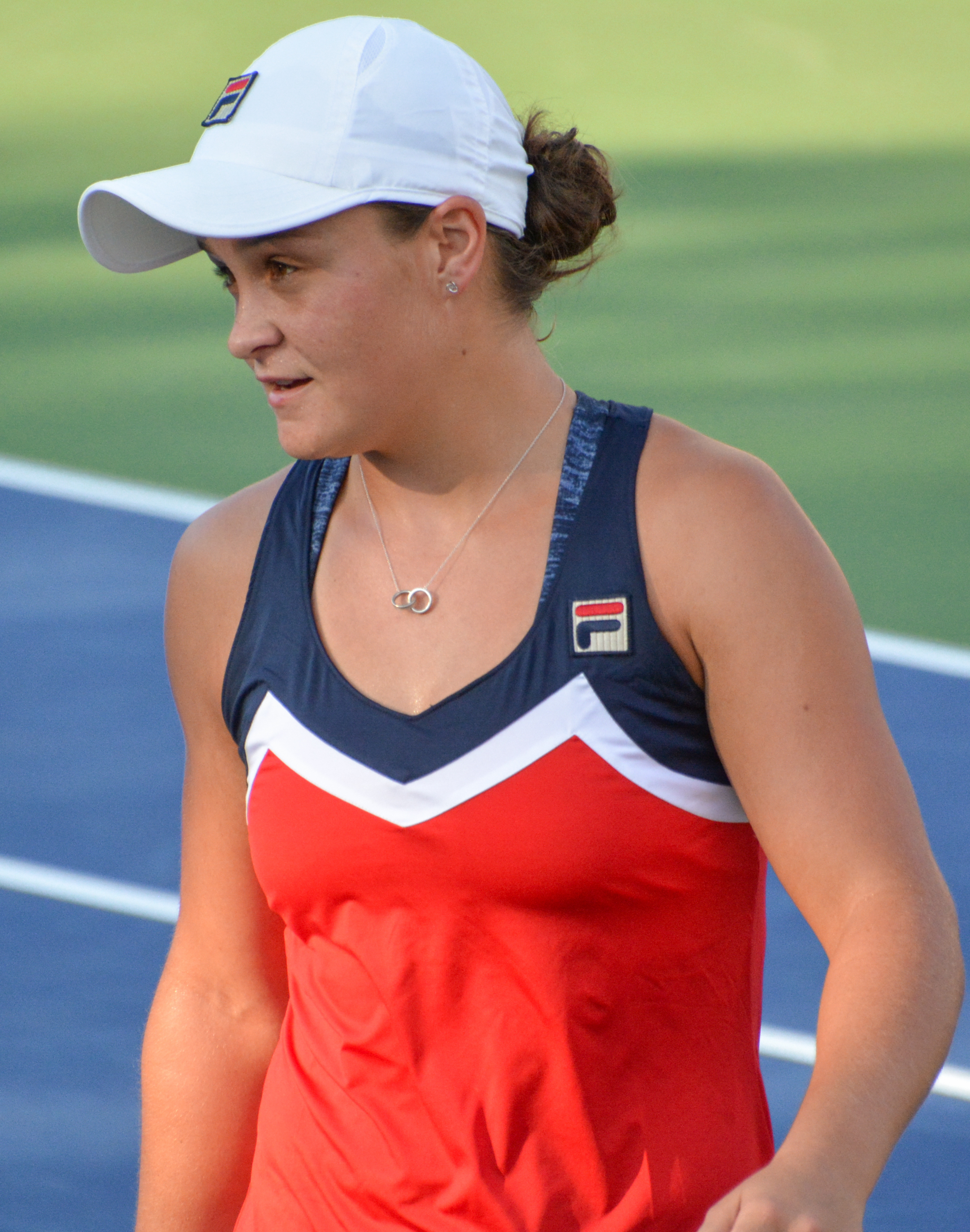 Day 4 of US Open 2018.